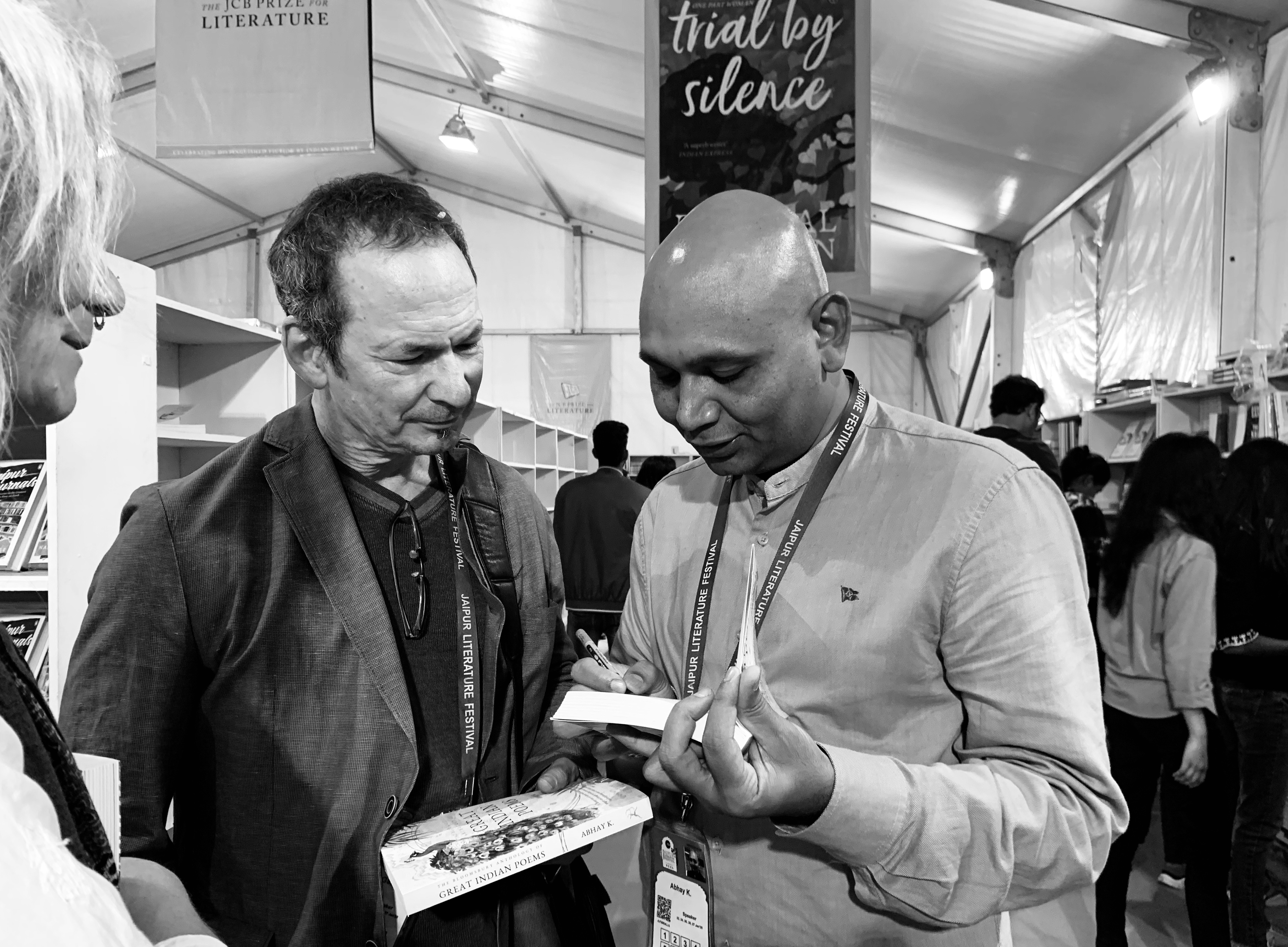 Poet-diplomat Abhay K. signing his book for Forrest Gander, Winner of the Pulitzer Prize for poetry 2019, at the Jaipur Literature Festival 2020